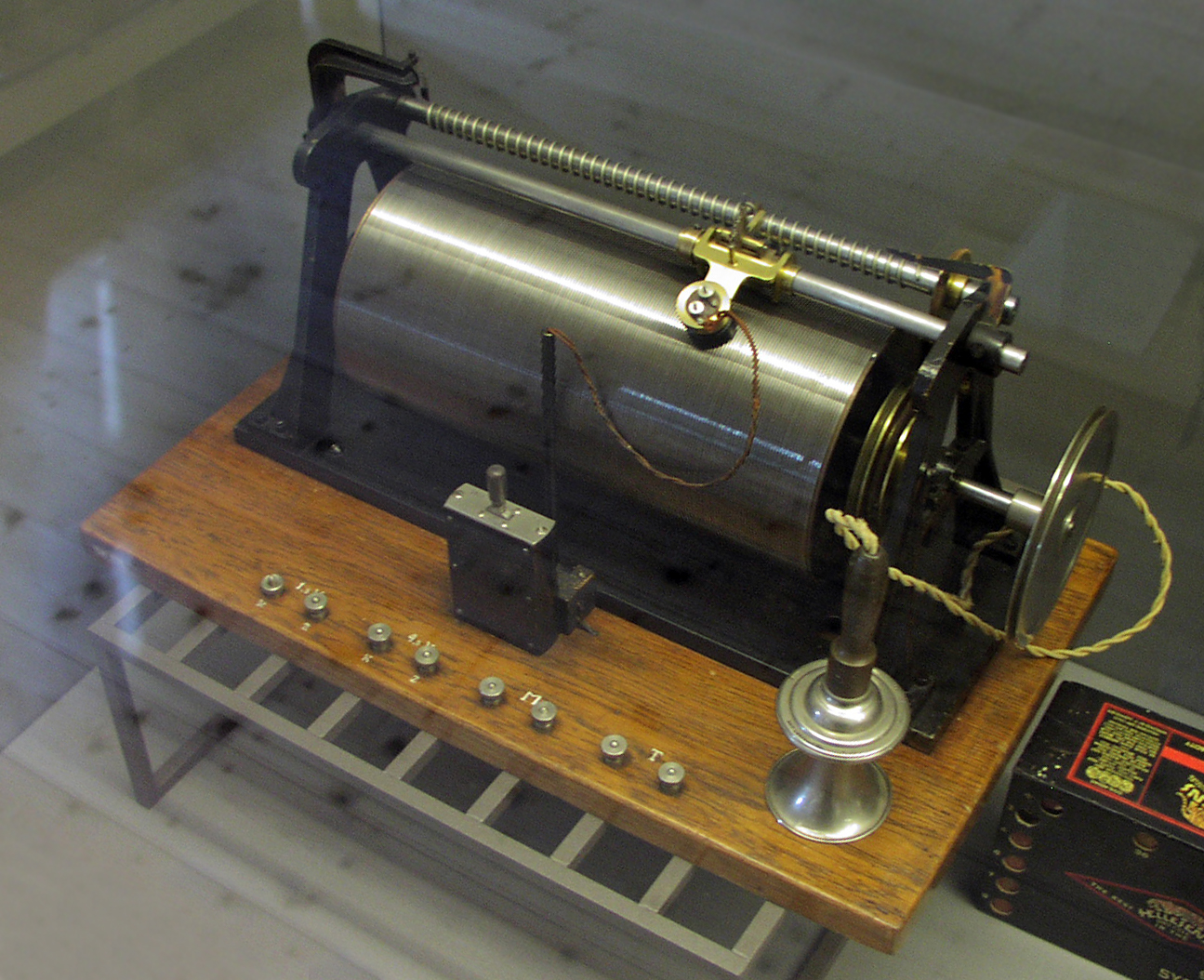 Magnetic wire recorder, invented by Valdemar Poulsen, 1898. It is exhibited at Brede works Industrial Museum, Lingby, Danmark.